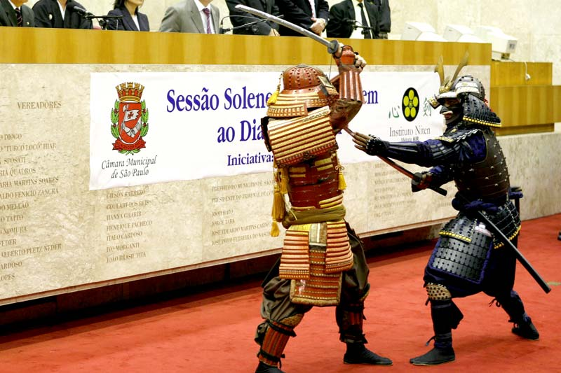 Students of the Niten Institute demonstrating sword Techniques with Yoroi (samurai armor) in the São Paulo Municipal Chamber during the commemoration of the Day of the Samurai